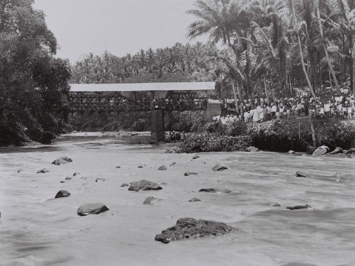 Opening of a bridge across a river near Bodjong, district Tjiamis in the Preanger region, West-Java.